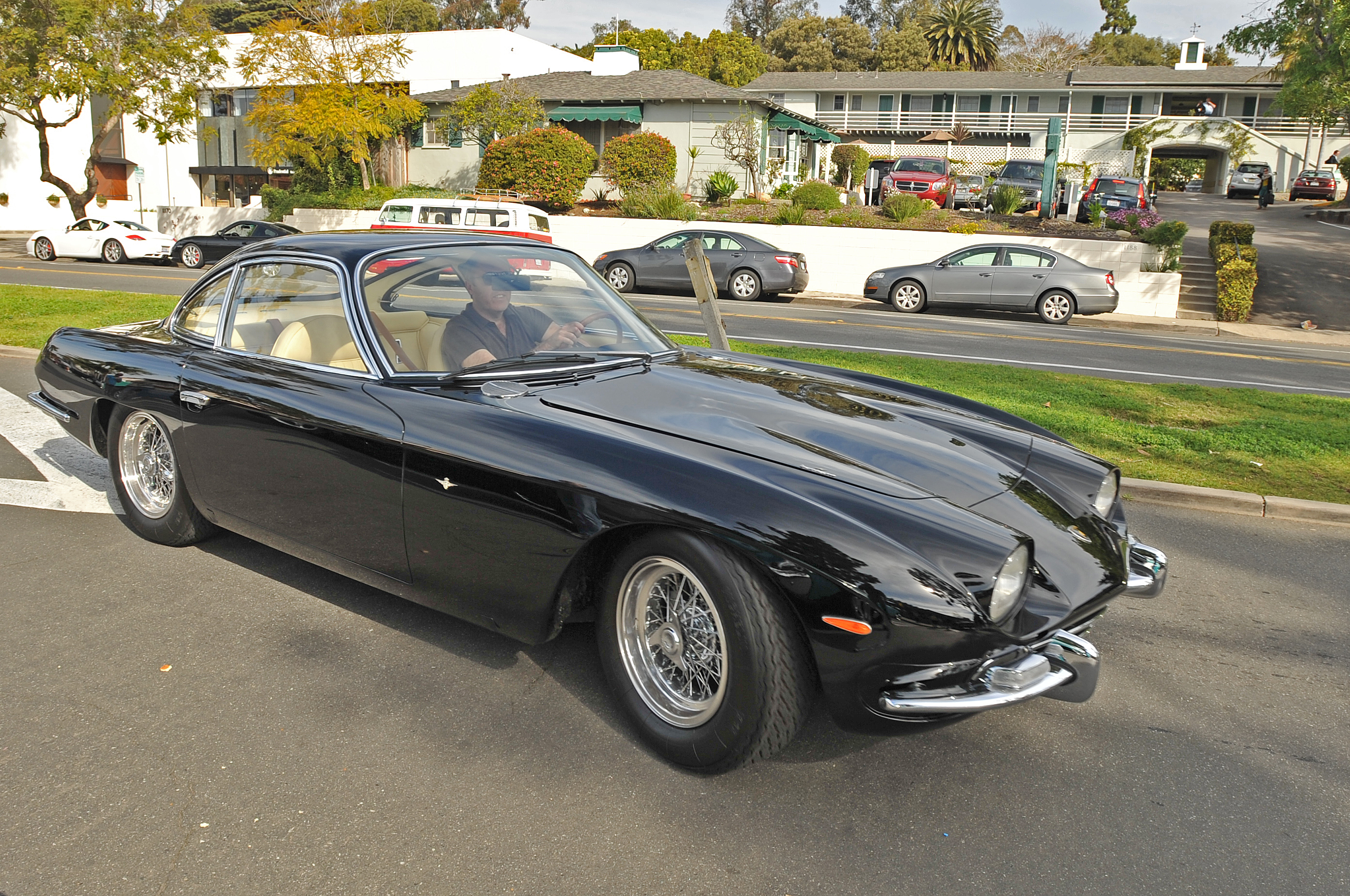 Lamborghini 350GT, 1965, front right corner.